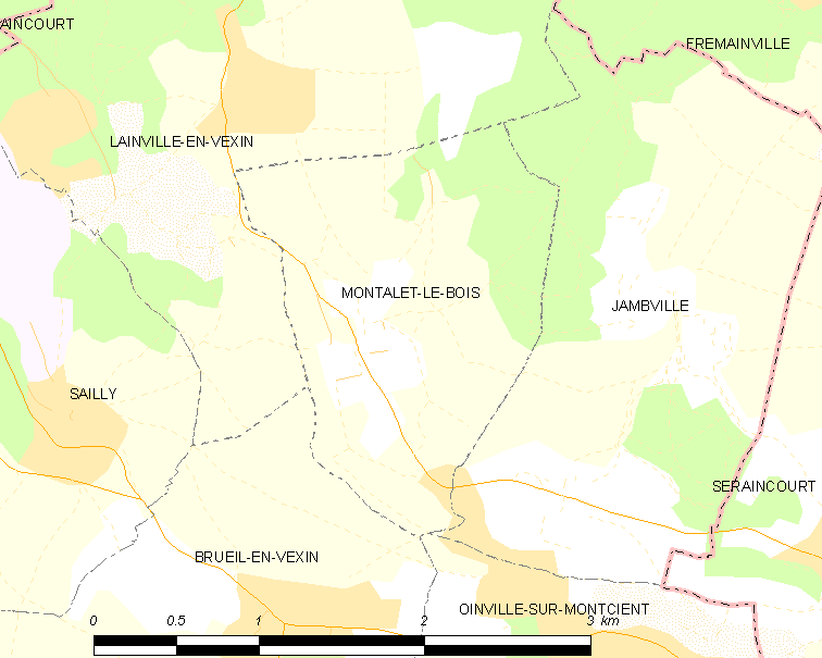 Map of French municipality Montalet-le-Bois